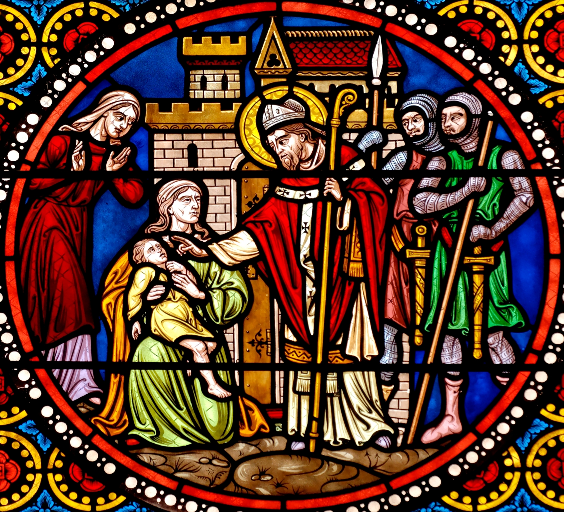 Scenes from the life of St. Austremonius: the saint blessing. Middle panel of a stained glass window from an apsidal chapel of the church Saint-Austremonius of Issoire, Auvergne, France. See also: the saint's martyrdom, top panel.